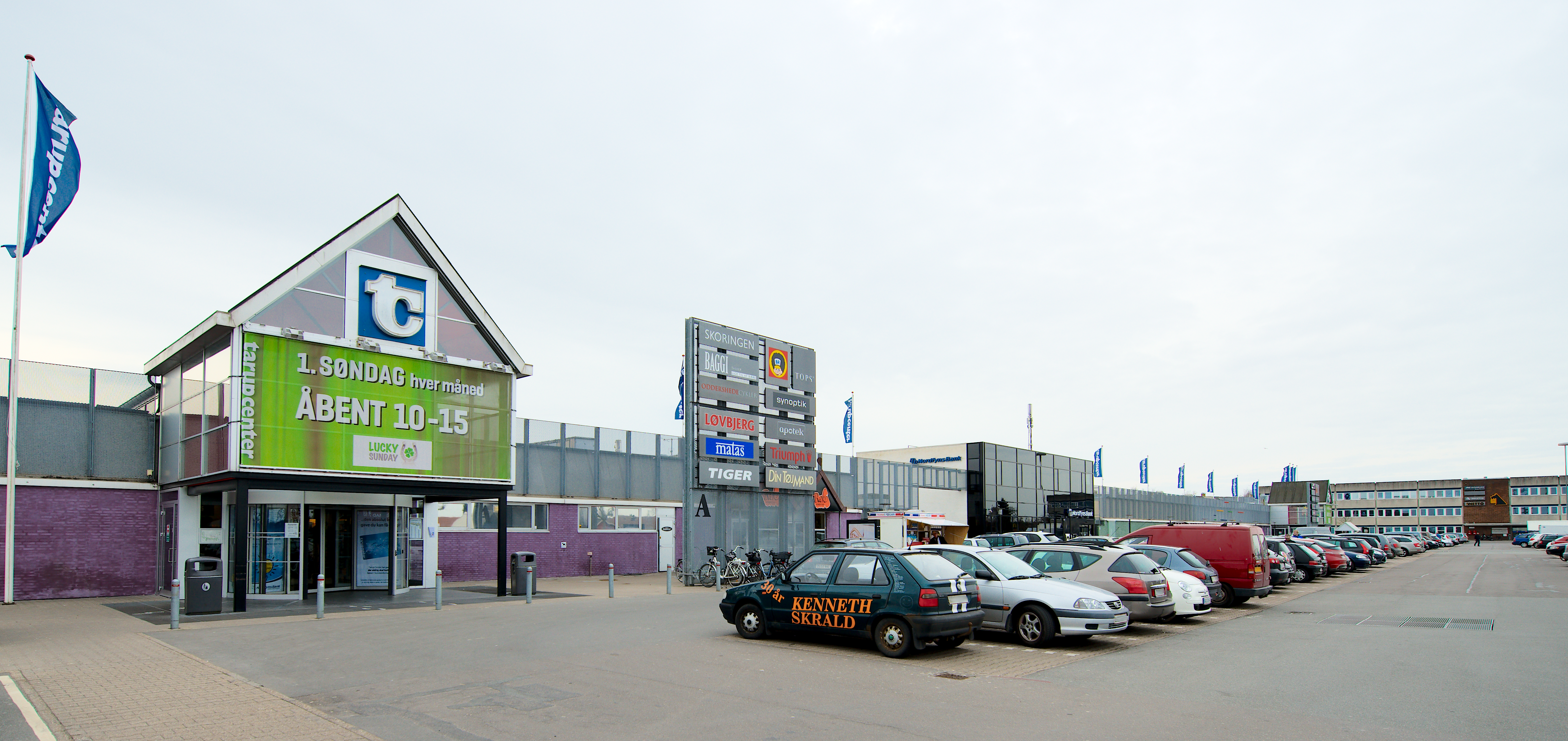 Entrance to the Tarup Center (Mall) in Odense